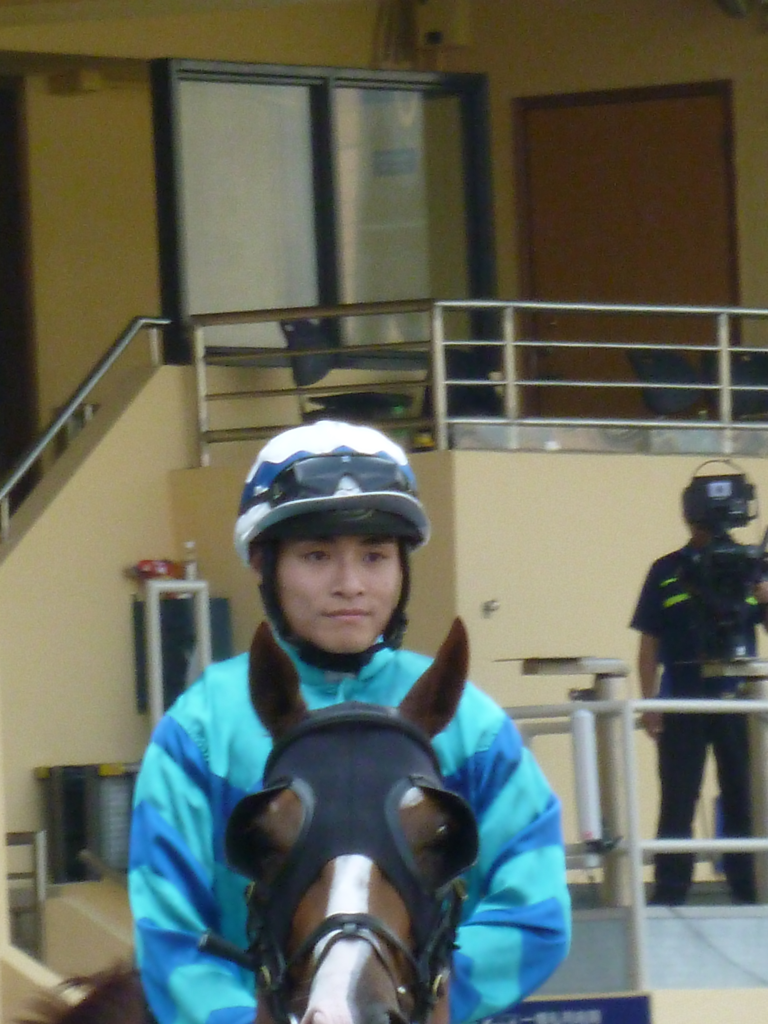 Keith M L Yeung (20 Oct 2013, Happy Valley Racecourse)